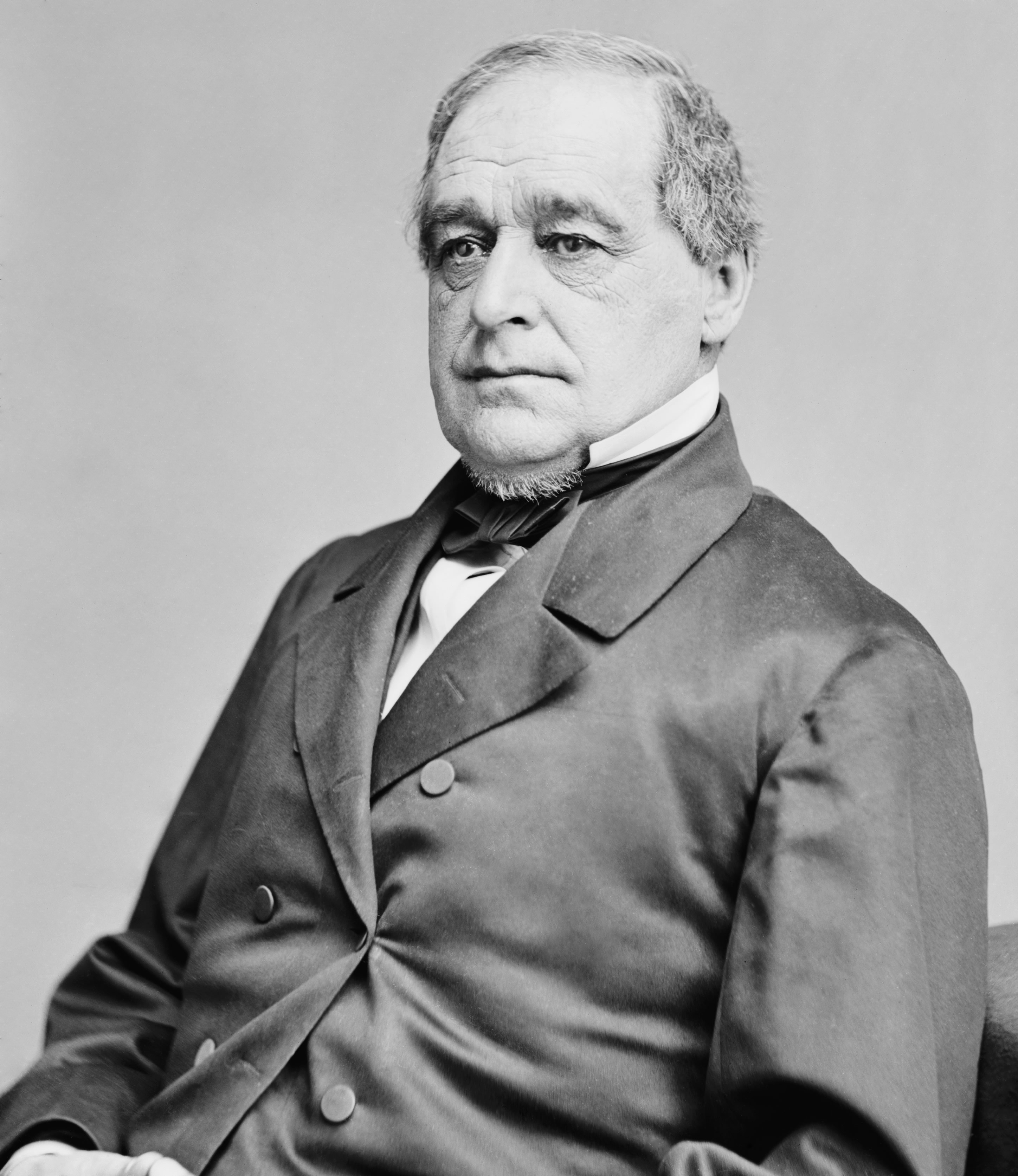 Hannibal Hamlin, circa 1860-65. Vice President of the United States.